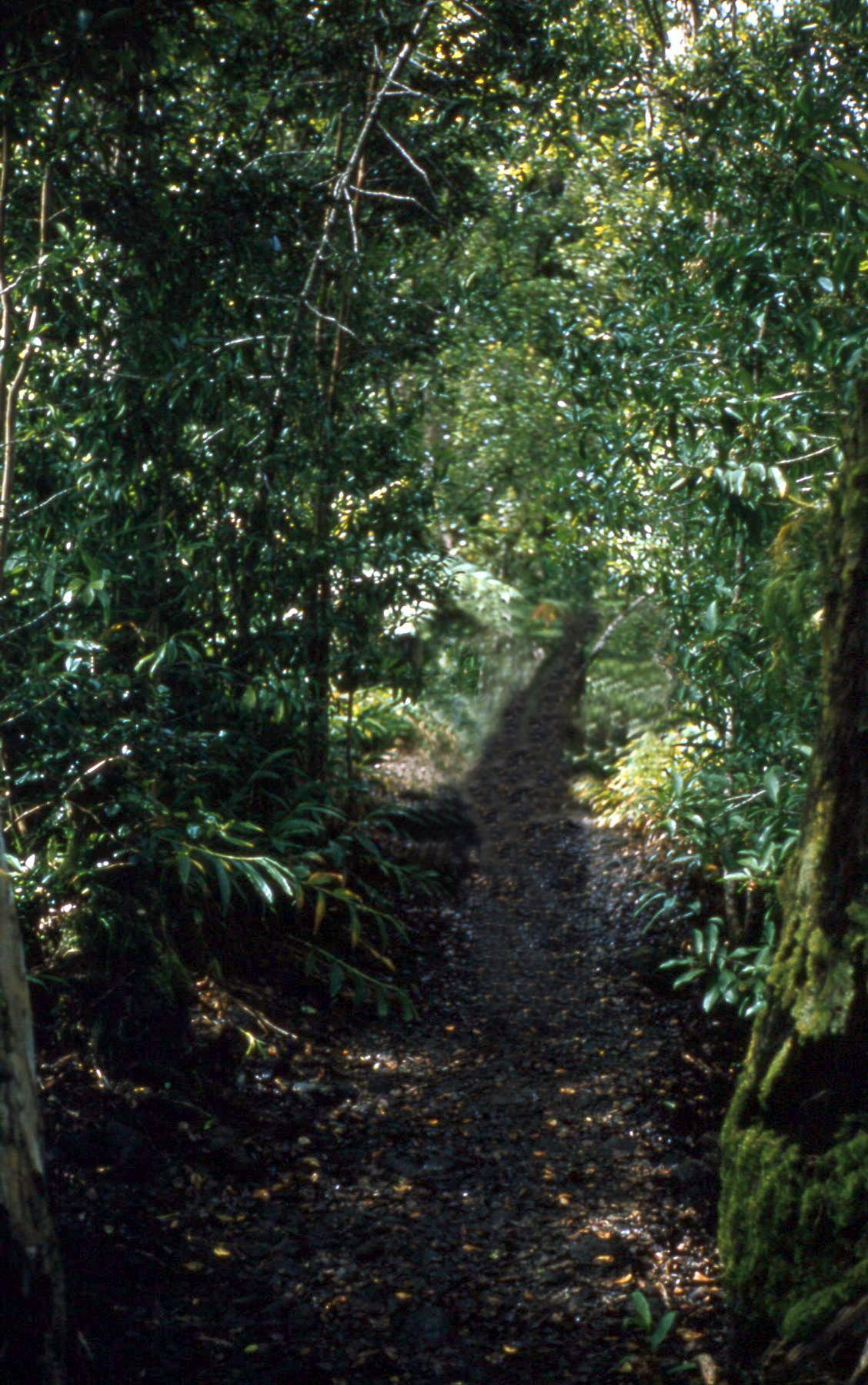 Trail in Akaka Falls State Park, near Hilo on Hawaiʻi Island.